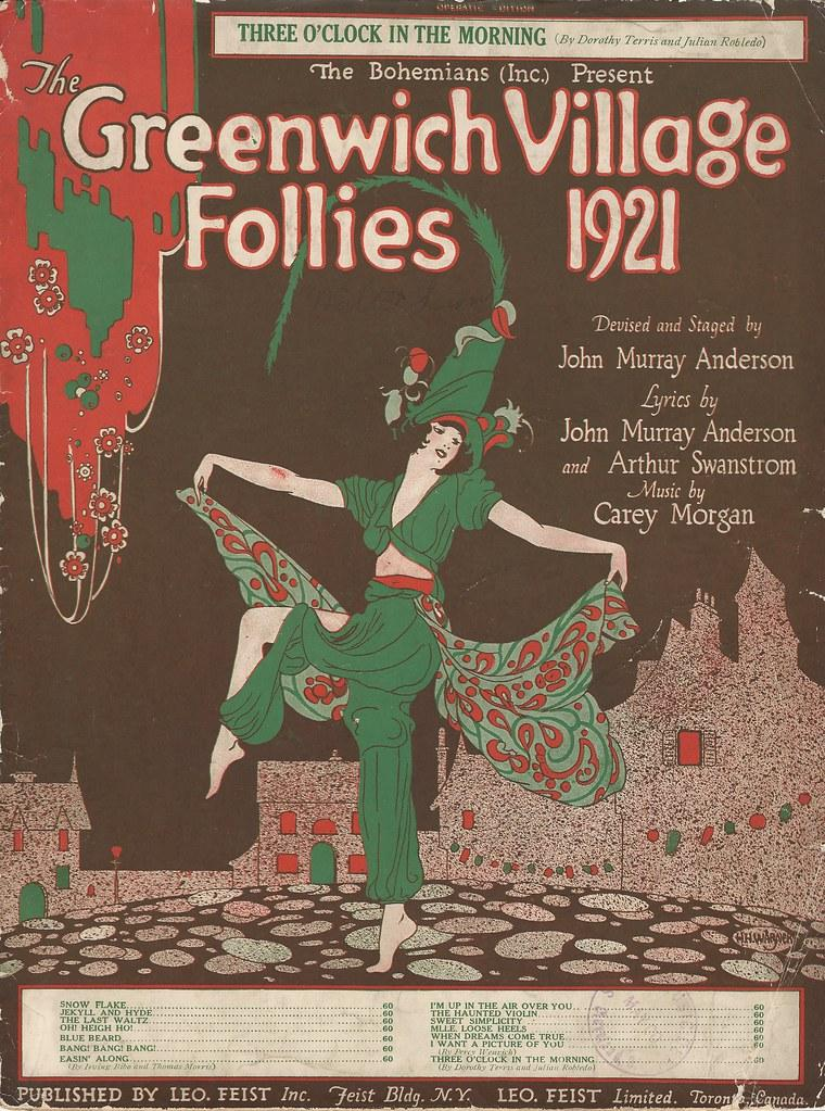 Sheet music cover of Greenwich Village Follies. Music published by Leo Feist. Artwork by H.H. Warner.